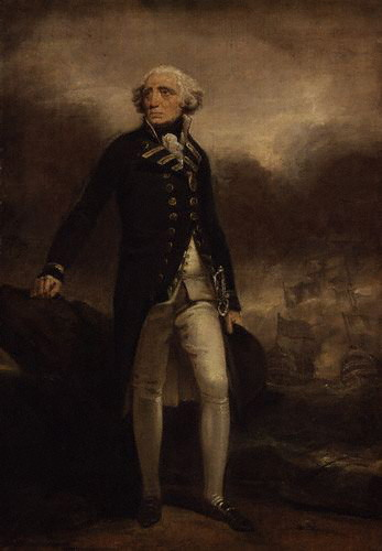 Richard Howe, 1st Earl Howe (1726-1799)